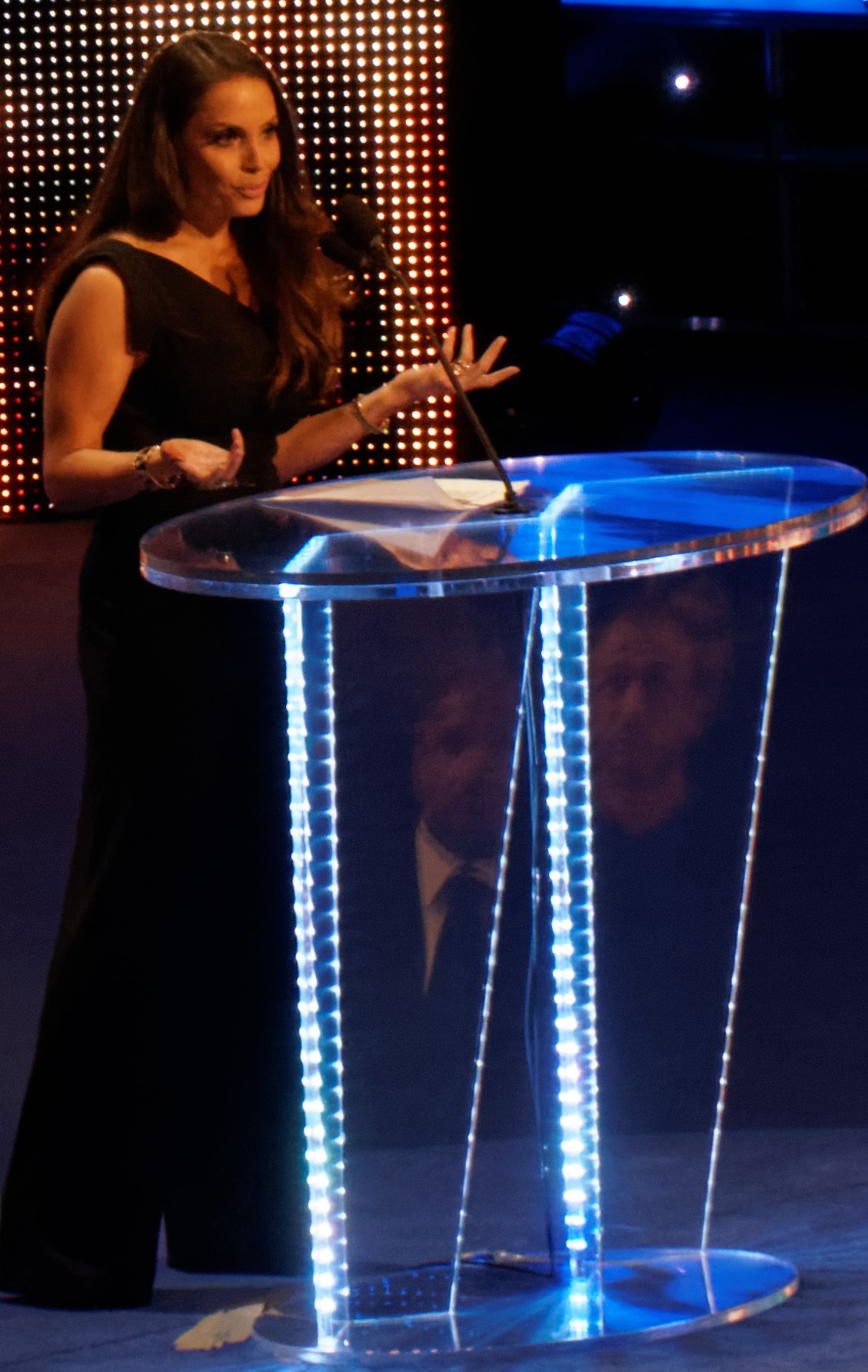 Trish Stratus at the 2014 Hall of Fame ceremony